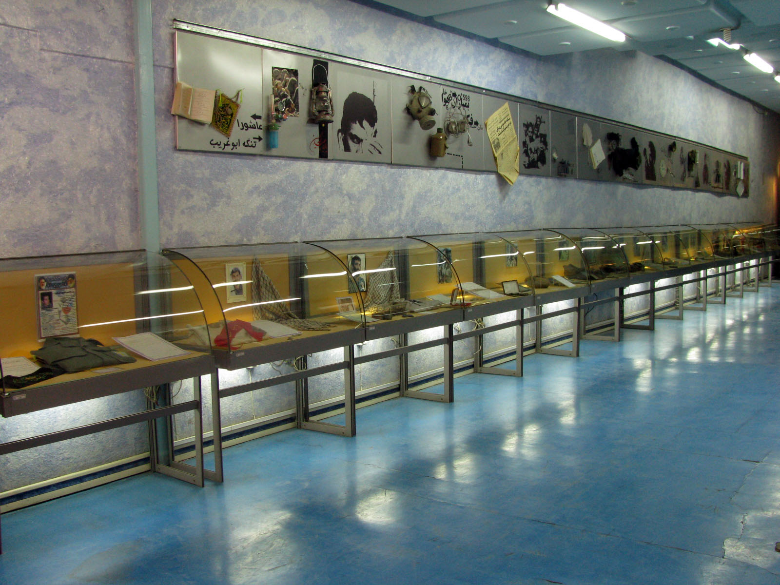 Iranian Martyrs Museum